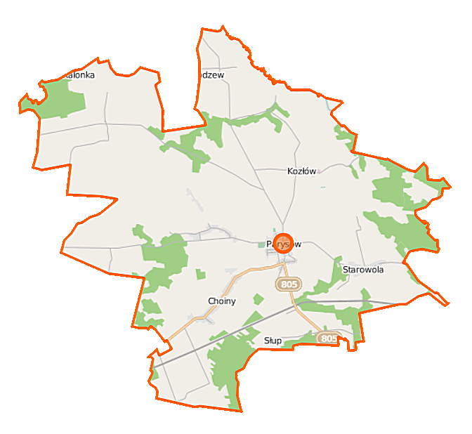 Map of Gmina Parysów, Poland This map of Parysów (gmina) was created from OpenStreetMap project data, collected by the community. This map may be incomplete, and may contain errors. Don't rely solely on it for navigation. Border coordinates52.034121.5689←↕→21.753651.9297